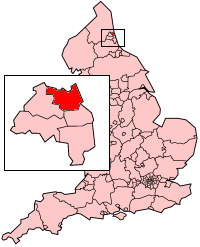 Metropolitan Borough of North Tyneside in Tyne and Wear, England